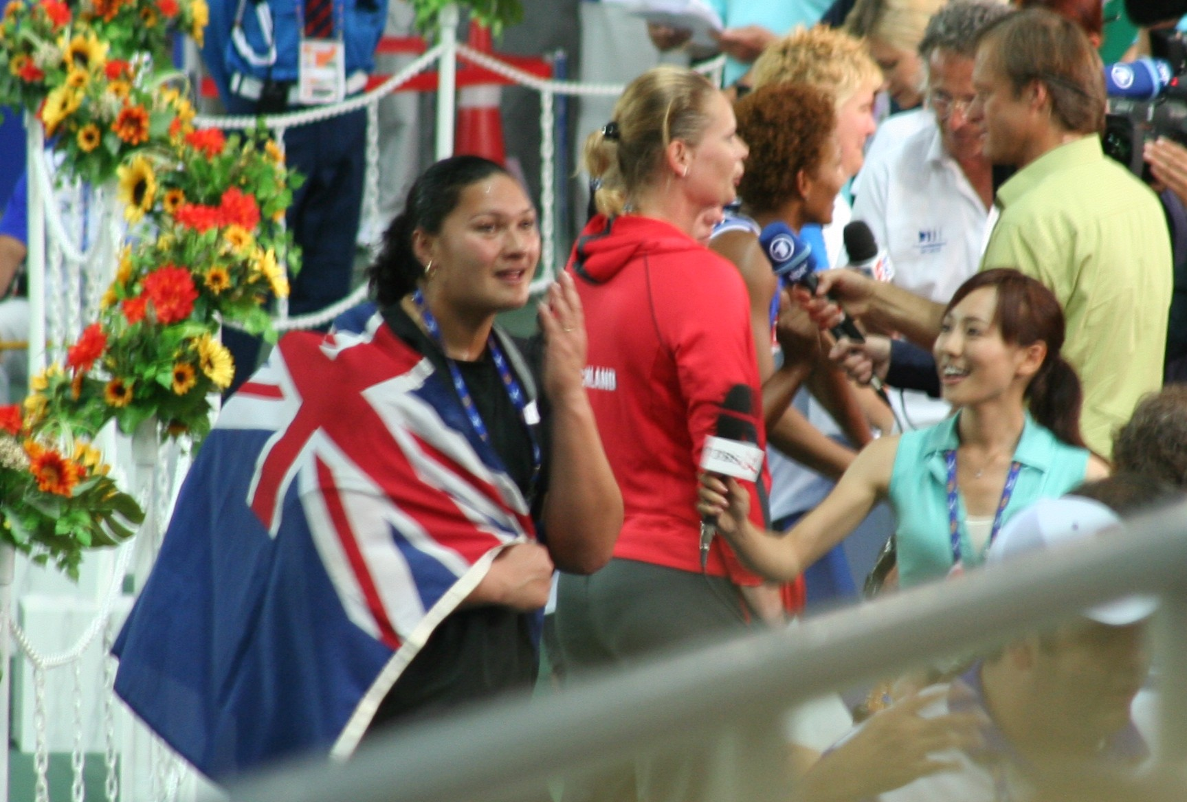 World Athletics Championships 2007 in Osaka - Women's Shot Put winner Valerie Vili (with New Zealand flag). Behind her, bronze medal winner Nadine Kleinert from Germany